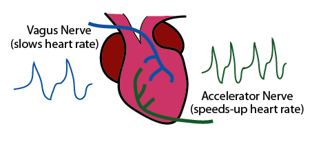 Part 1 of Loewi's experiment describing the existence of Vagusstoff. Drawn by me.